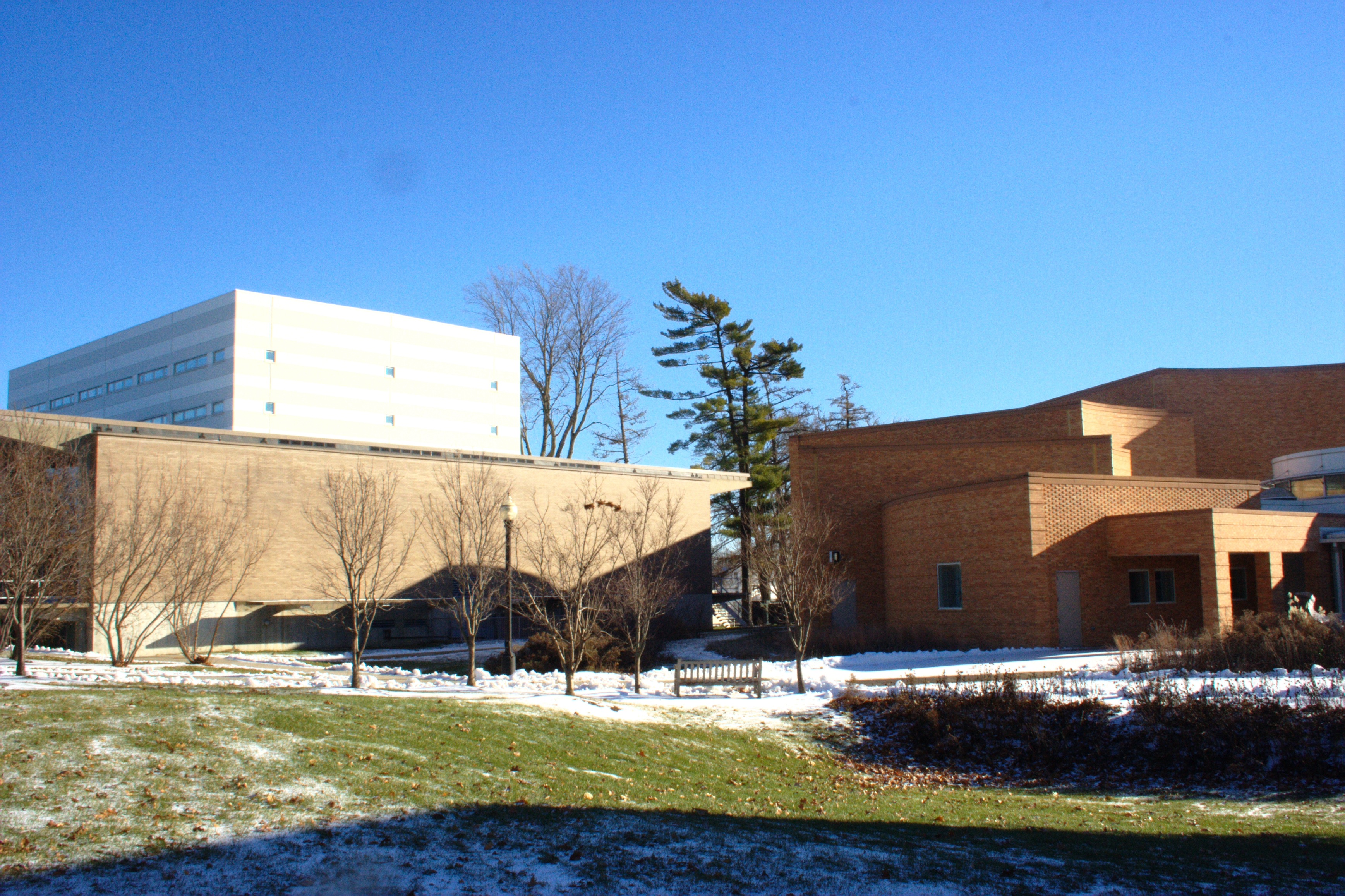 Bucksbaum Center for the Arts, Grinnell College.